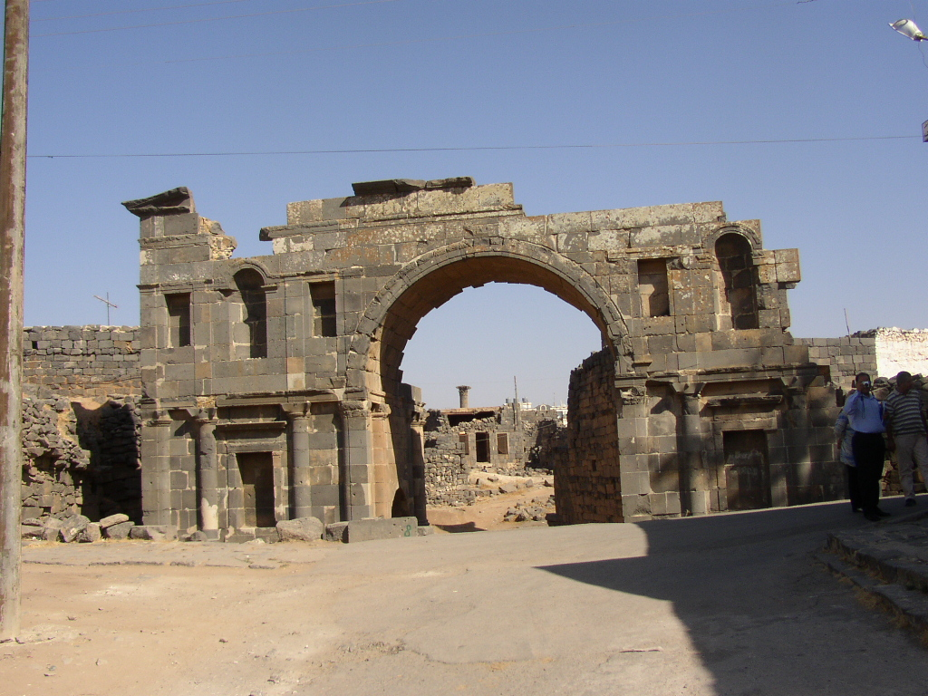 Ancient City of Bosra (Syrian Arab Republic)